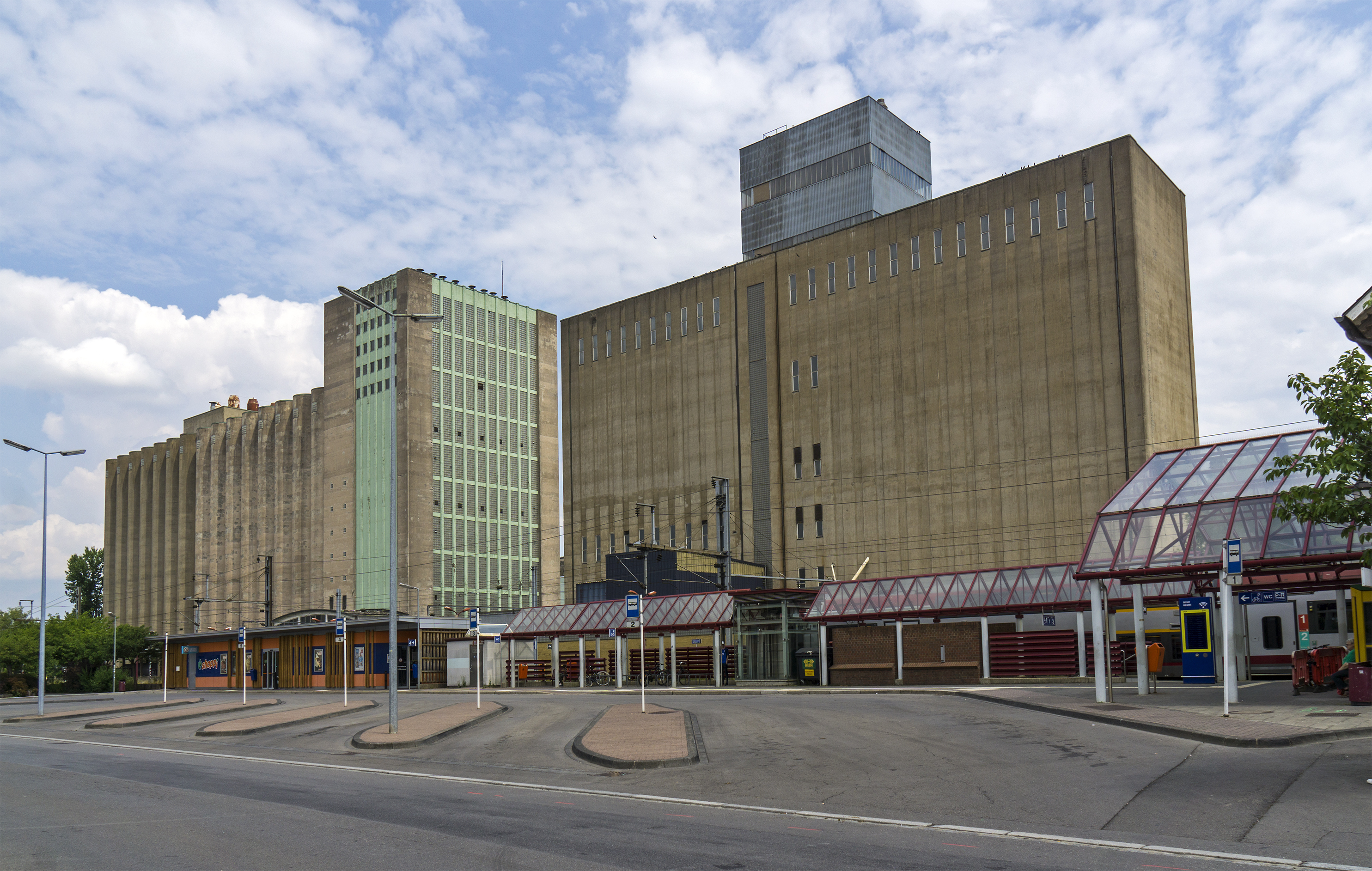 Agricultural center in Mersch in July 2018.